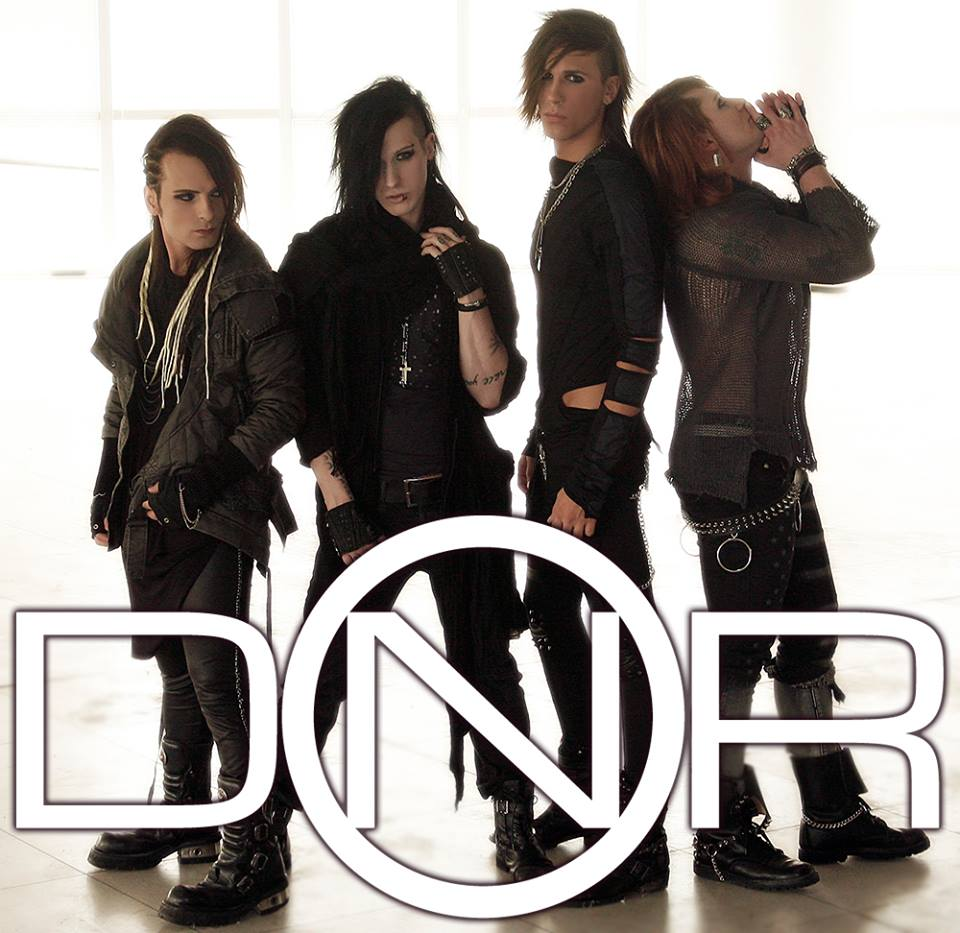 DNR line up 2015